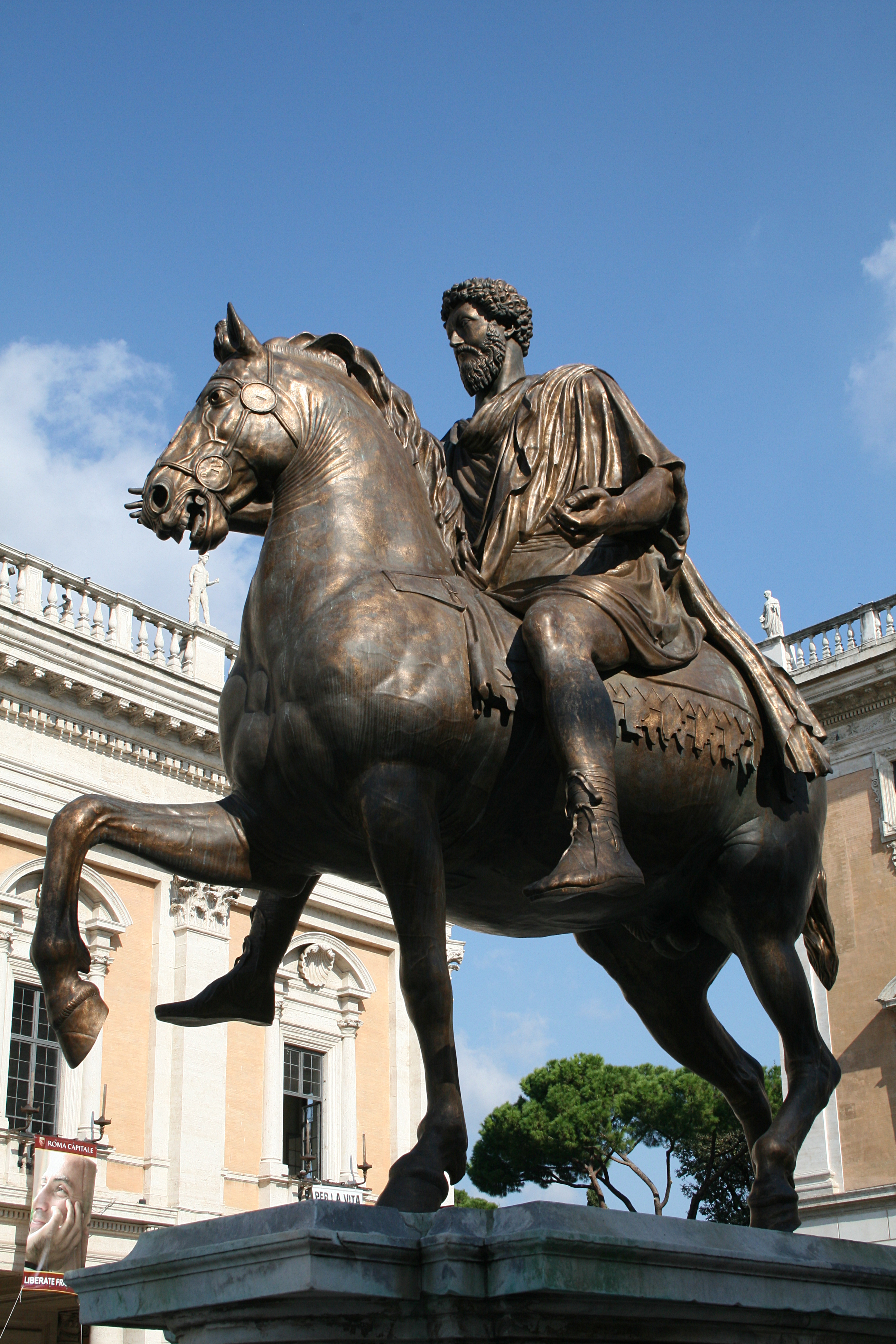 Bronze statue of Marcus Aurelius, piazza del Campidoglio in Rome. Modern copy of a Roman original of the 2nd century CE, now kept in the Palazzo Nuovo, Musei Capitolini.